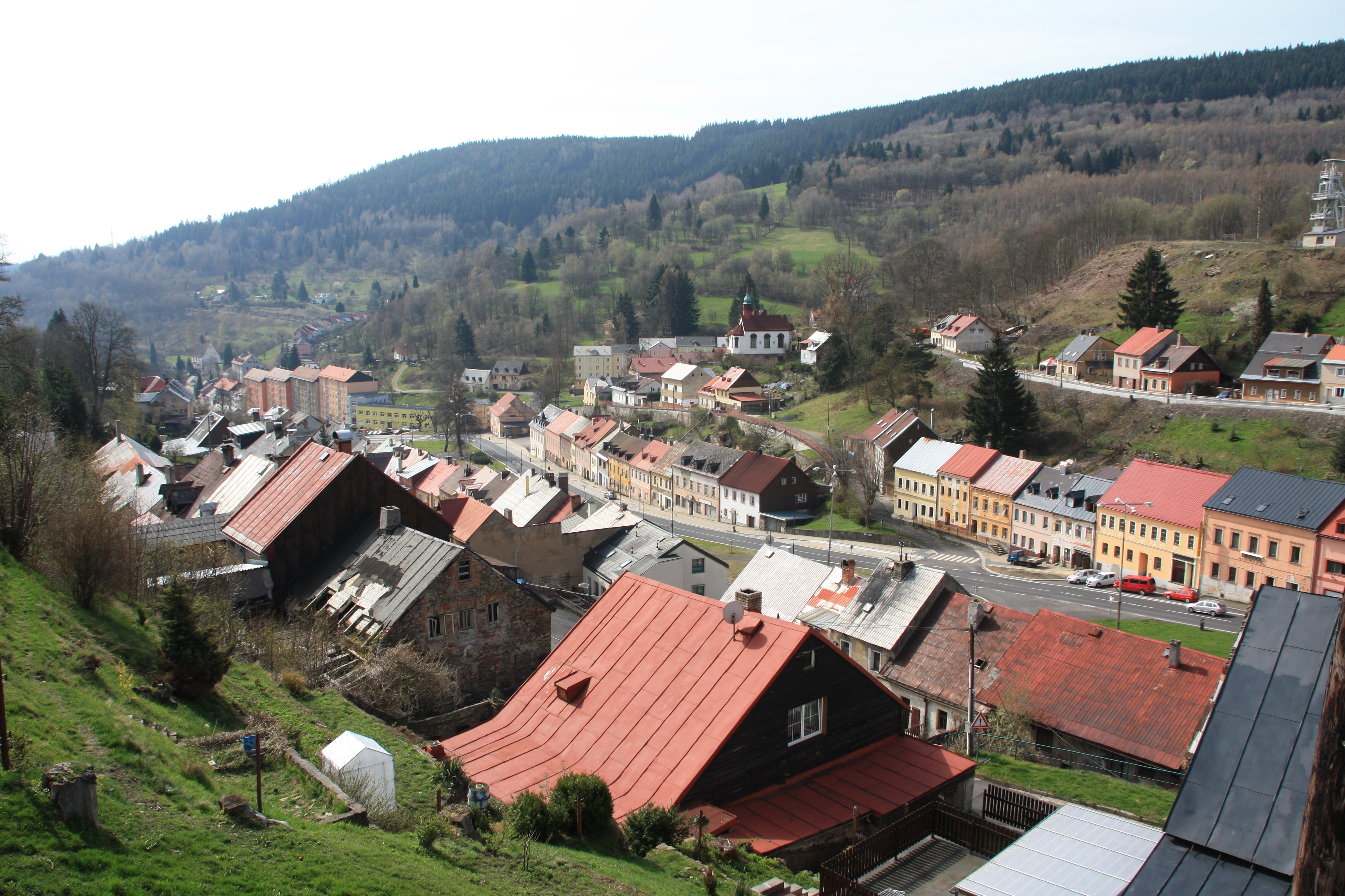 View over Jáchymov